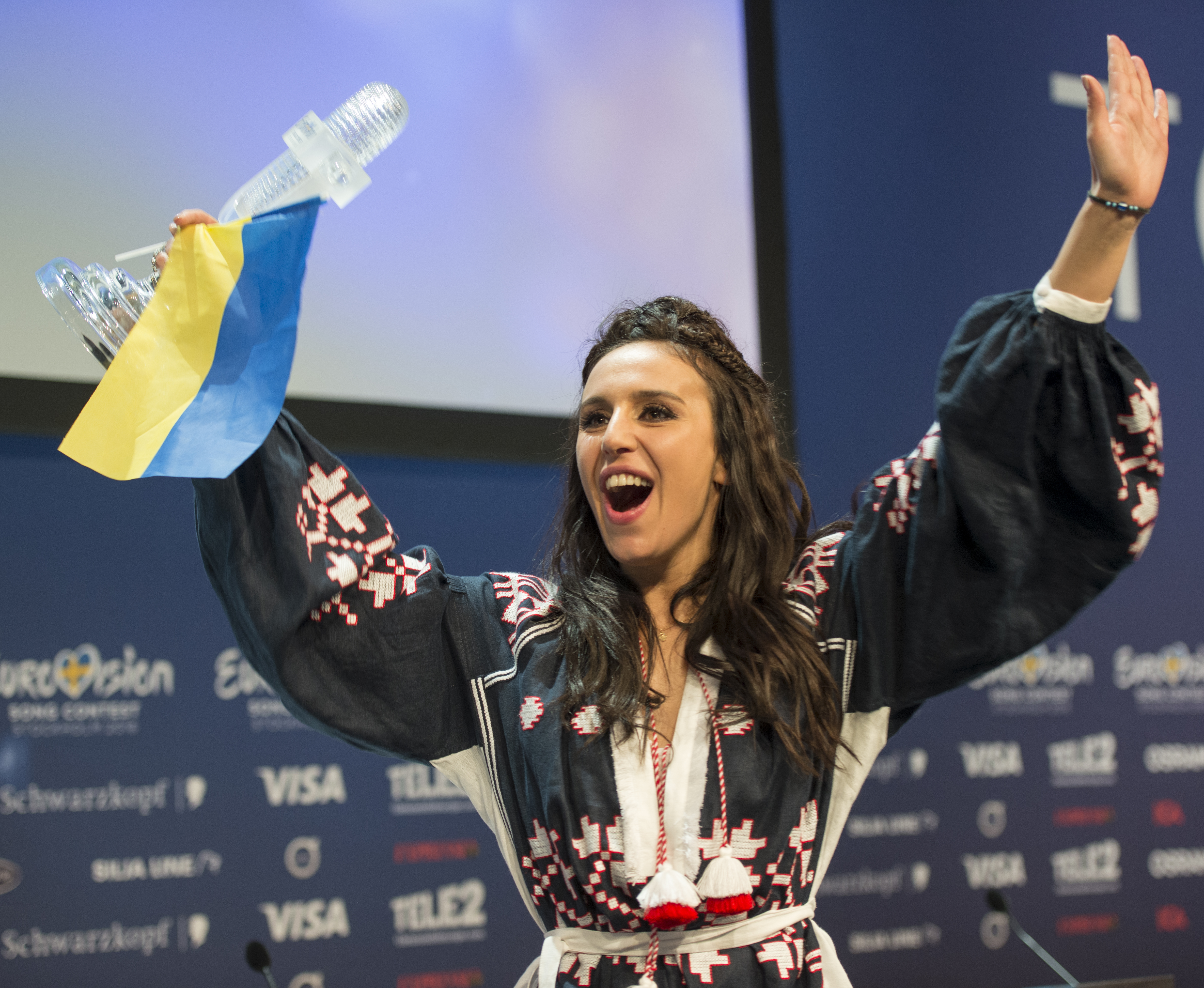 Jamala at the winners press conference, right after winning the Eurovision Song Contest 2016 in Stockholm. (Help translate this text)